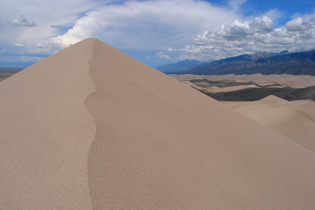 Summit of Star Dune, the tallest dune in Great Sand Dunes National Park, Colorado, United States.